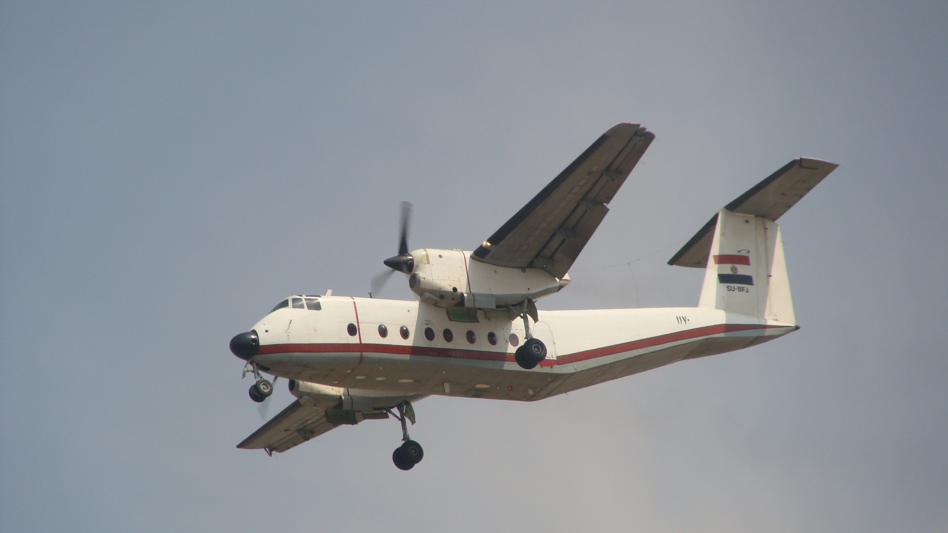 De Havilland Canada DHC-5D Buffalo aprooching Almaza airbase